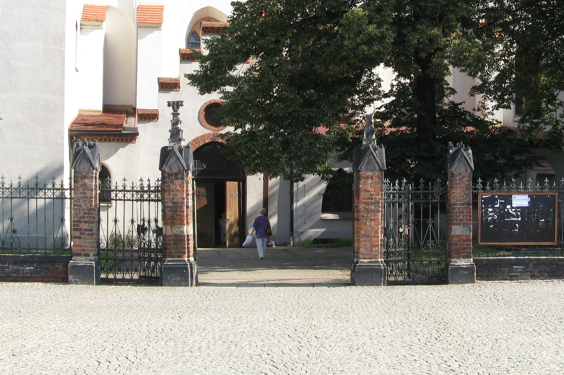 Antique fence of the church of St. Mary in Bytom from 1902 (registry number: A/503/2018 from 26.06.2018) in Rynek (Market Square).